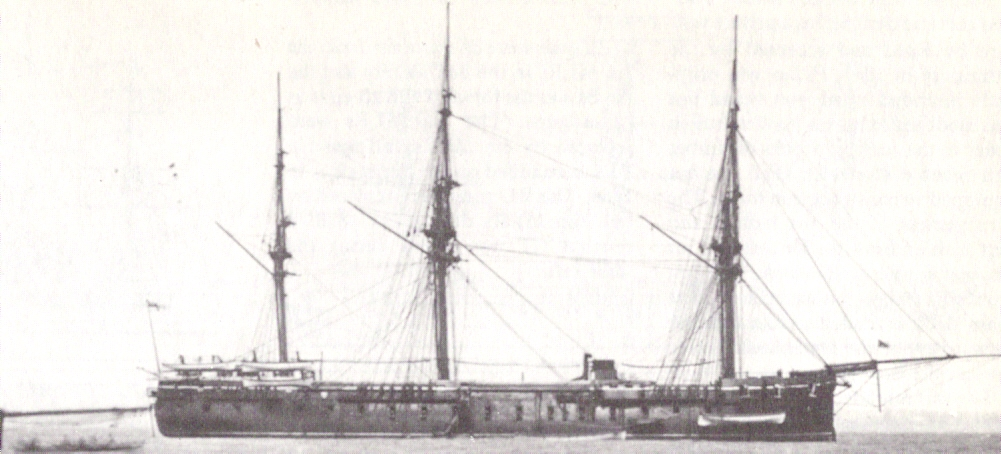 British central battery ironclad HMS Zealous with her funnel lowered